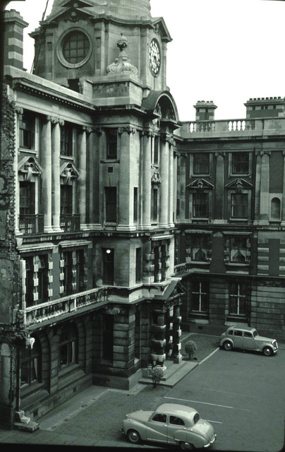 The main building of the Manchester Royal Infirmary, taken in 1957